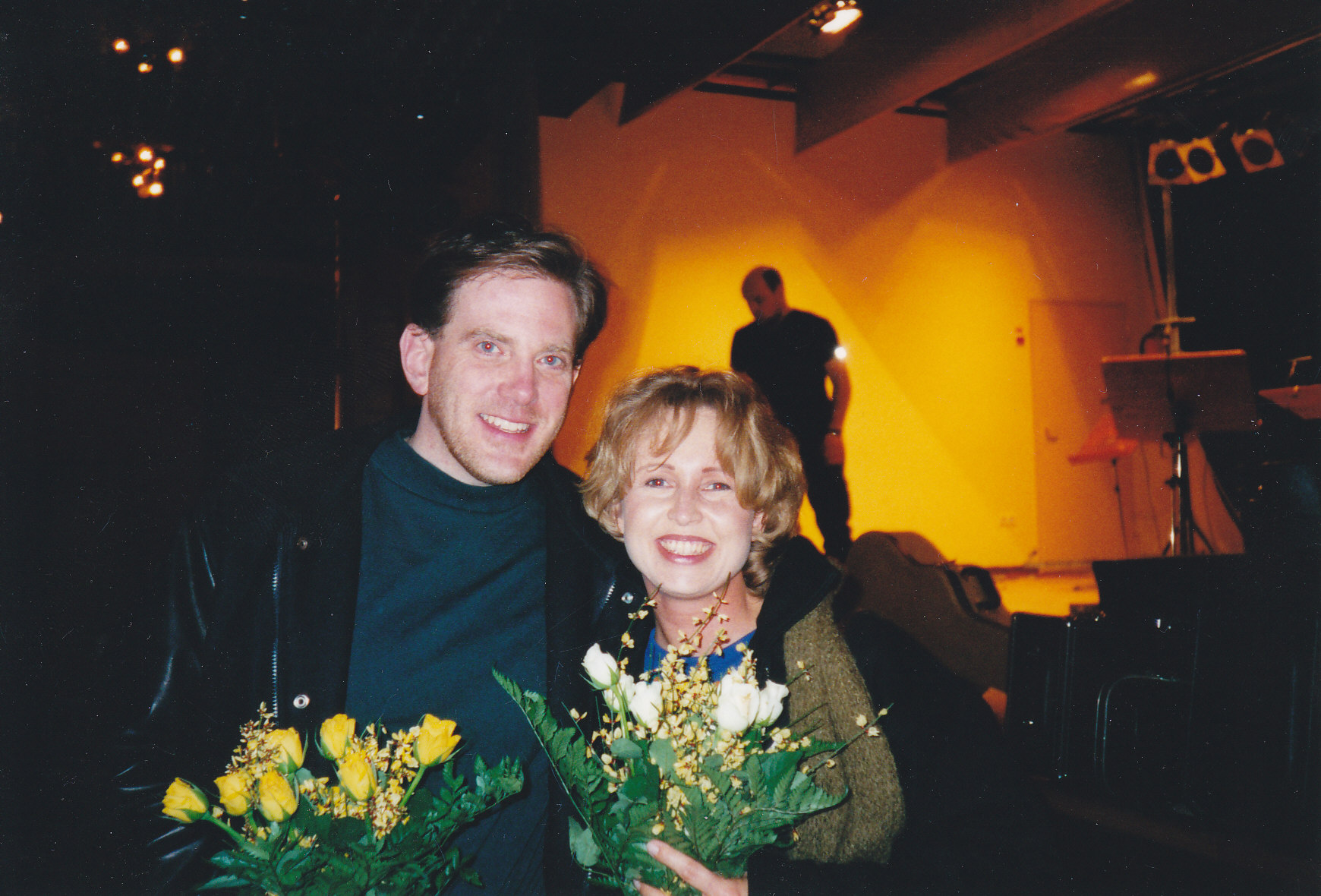 Carla and Michael Nicholson in Vechta